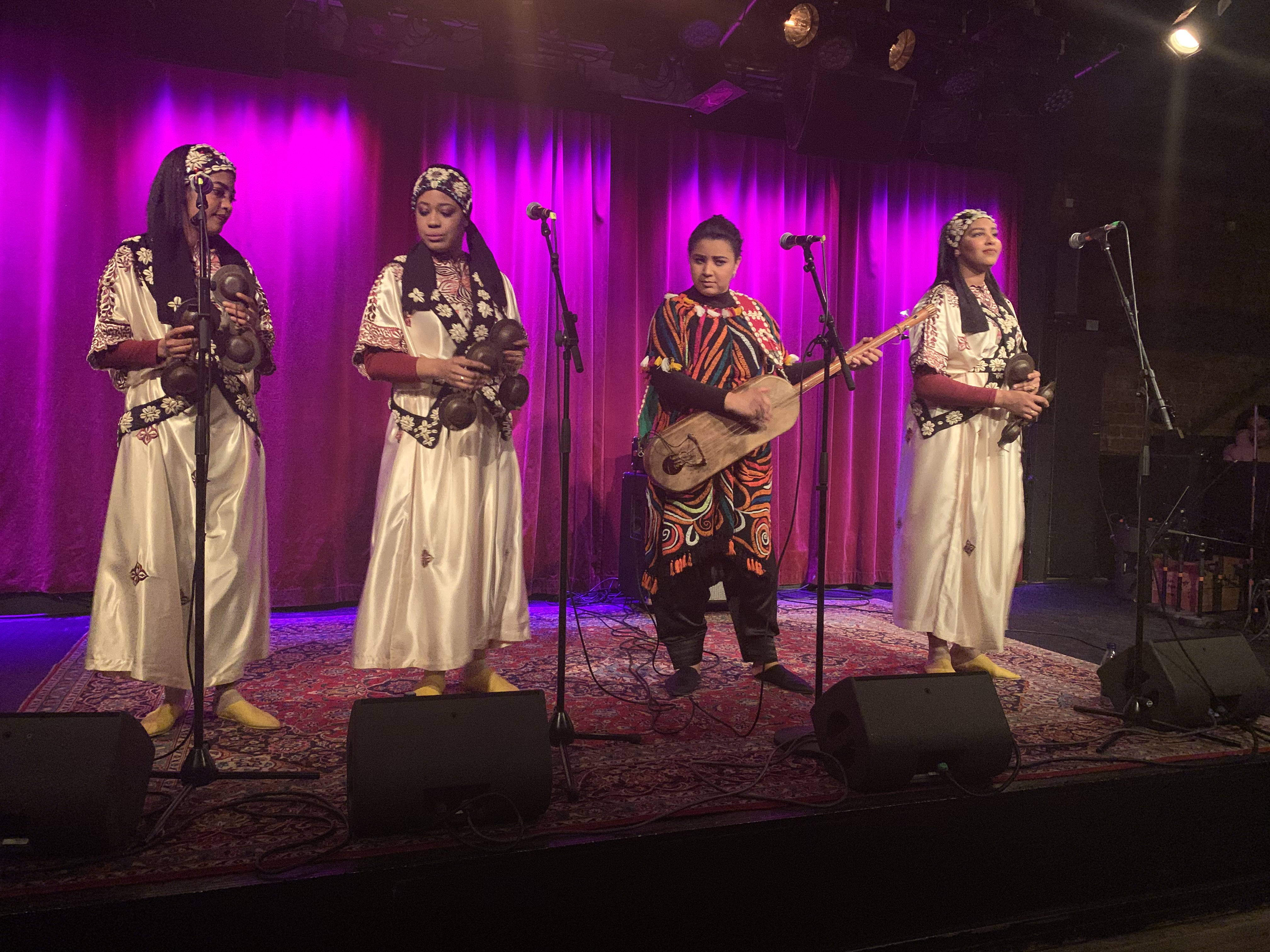 Asma Hamzaoui in a concert in Stockholm